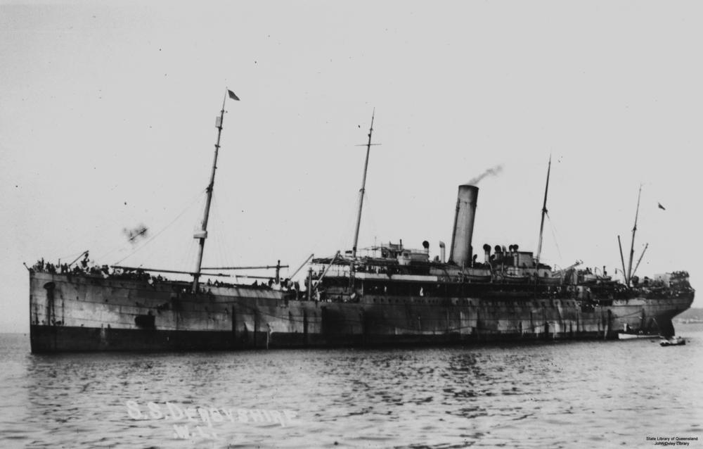 Bibby Line cargo ship SS Derbyshire 6,163 GRT. Built by Harland and Wolff 1897; scrapped 1931.